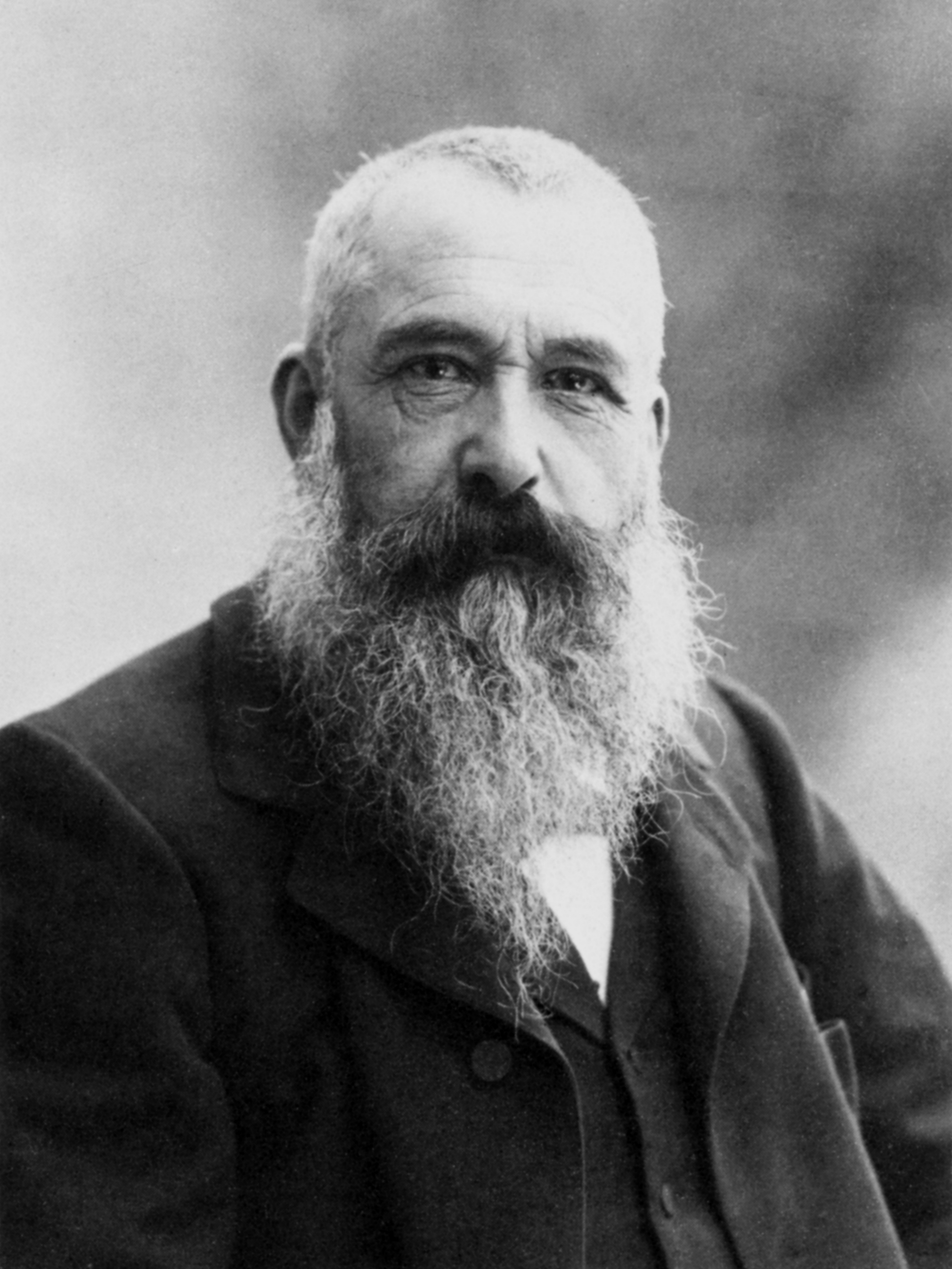 Portrait photograph of the French impressionist painter Claude Monet by Nadar.